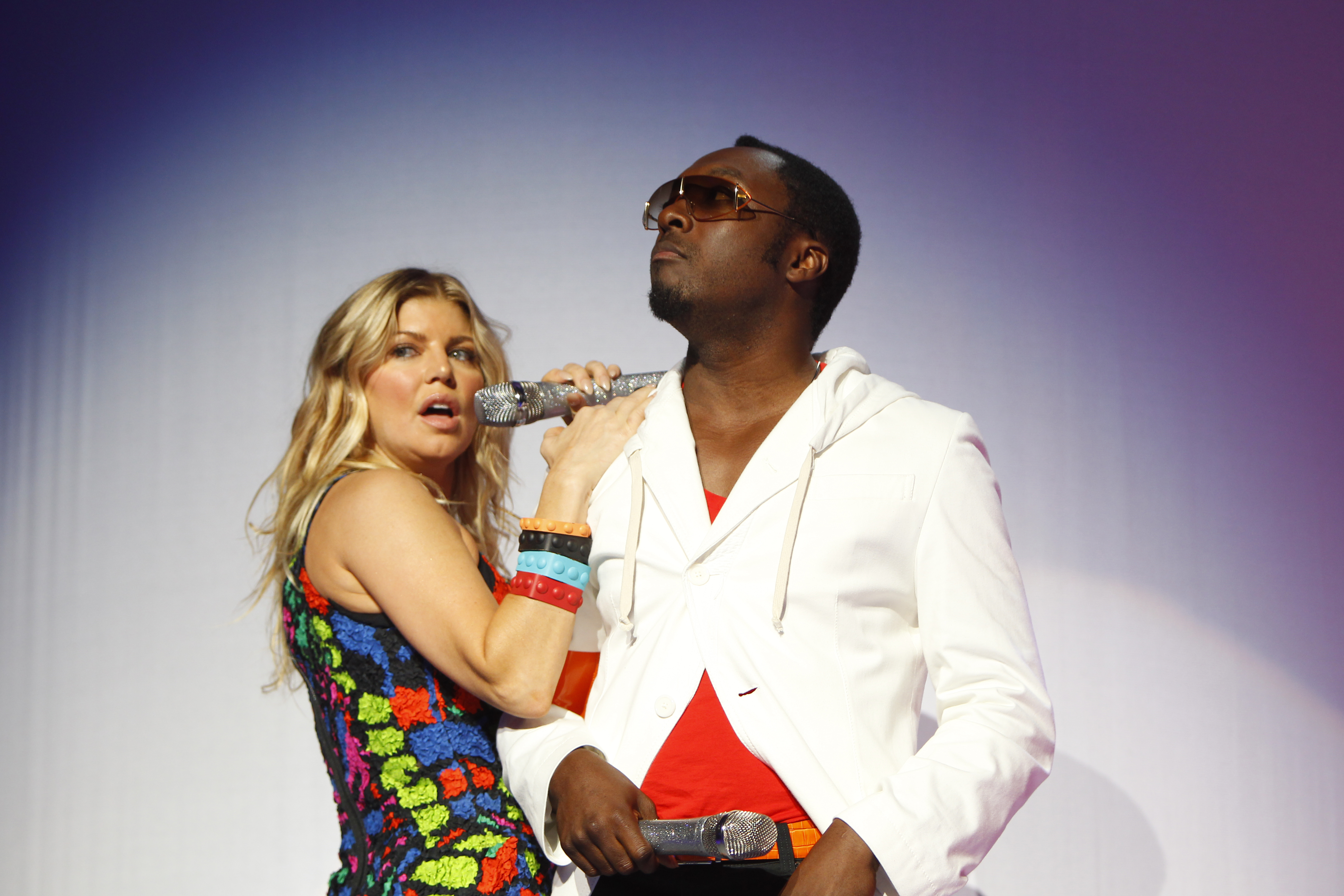 Fergie and will.i.am during Walmart Shareholders' Meeting 2011